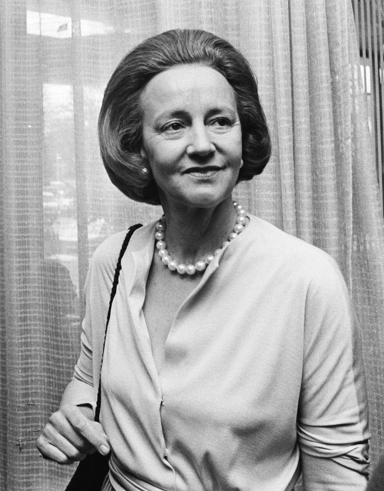 Katharine Graham (1917-2001), publisher of The Washington Post, guest at a meeting of the Dutch Newspaper Press (NDP), 22 May 1975